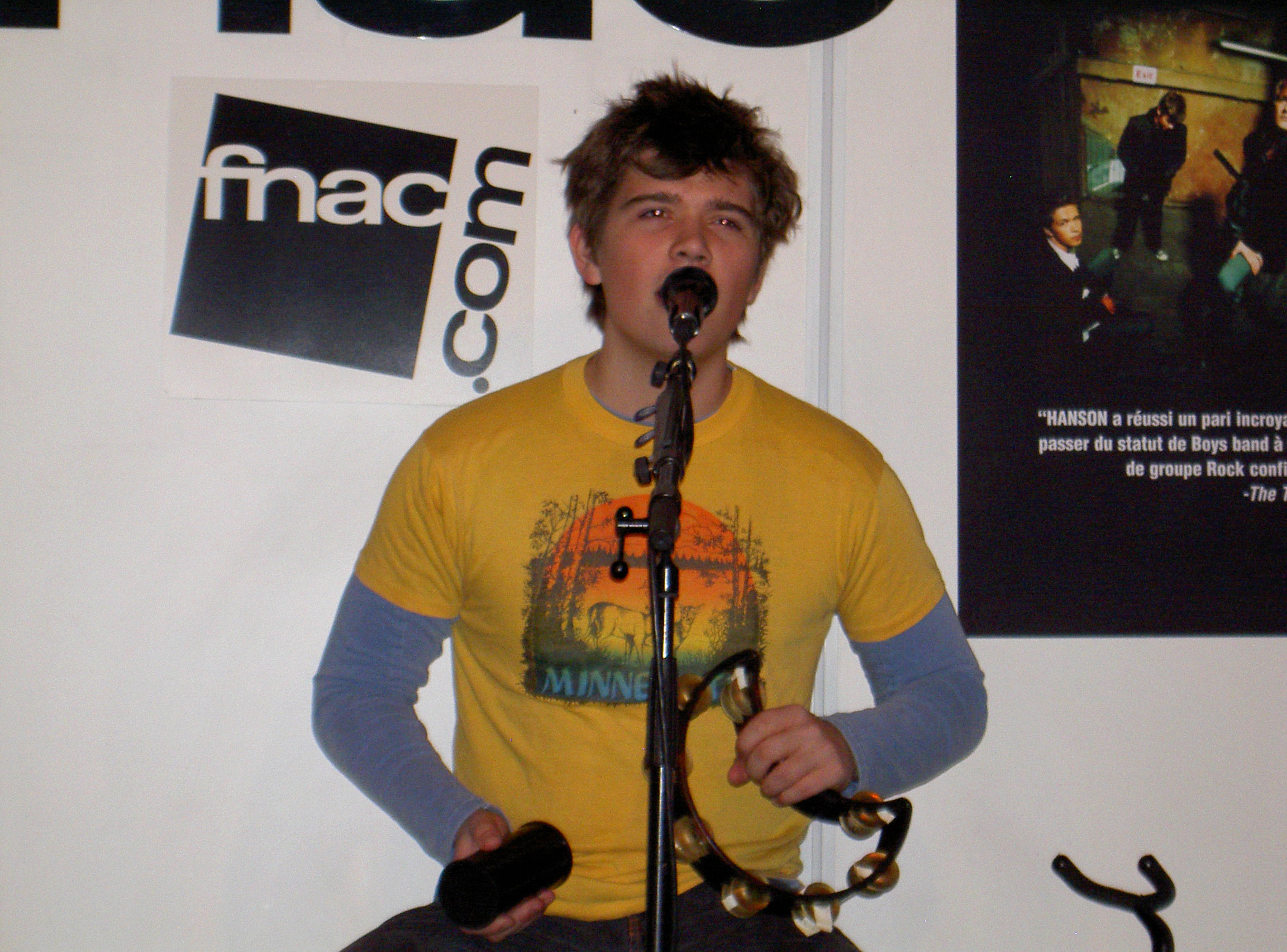 Zac Hanson playing at Fnac Montparnasse in February 2005.